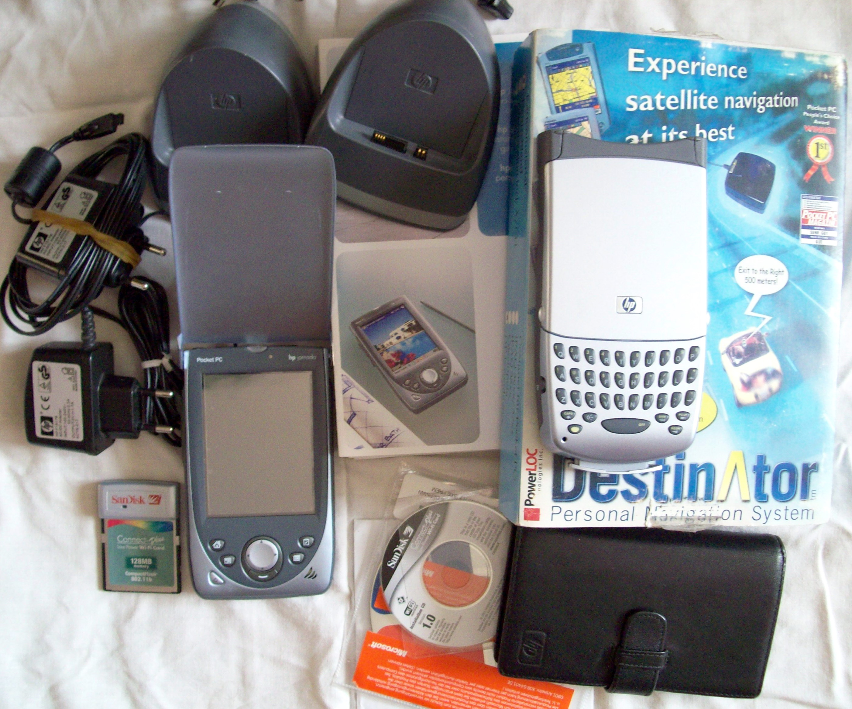 HP Jornada 568 PDA and accessories, including compatibles and originals.